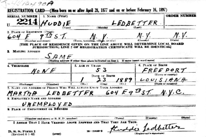 Lead Belly (Huddie Ledbetter) draft registration card, ca. 1942. The U.S. officially entered World War II on 8 December 1941 following an attack on Pearl Harbor, Hawaii. Just about a year before that, in October 1940, President Roosevelt had signed into law the first peacetime selective service draft in U.S. history, due to rising world conflicts. After the U.S. entered WWII a new selective service act required that all men between ages 18 and 65 register for the draft. Between November 1940 and October 1946, over 10 million American men were registered. This database is an indexed collection of the draft cards from the Fourth Registration, the only registration currently available to the public (the other registrations are not available due to privacy laws). The Fourth Registration, often referred to as the "old man's registration", was conducted on 27 April 1942 and registered men who born on or between 28 April 1877 and 16 February 1897 - men who were between 45 and 64 years old - and who were not already in the military. Information available on the draft cards includes: Name of registrant Age Birth date Birthplace Residence Employer information Name and address of person who would always know the registrant's whereabouts Physical description of registrant (race, height, weight, eye and hair colors, complexion) Additional information such as mailing address (if different from residence address), serial number, order number, and board registration information may also be available. For individuals who lived near a state border, sometimes their Draft Board Office was located in a neighboring state. Therefore, you may find some people who resided in one state, but registered in another.